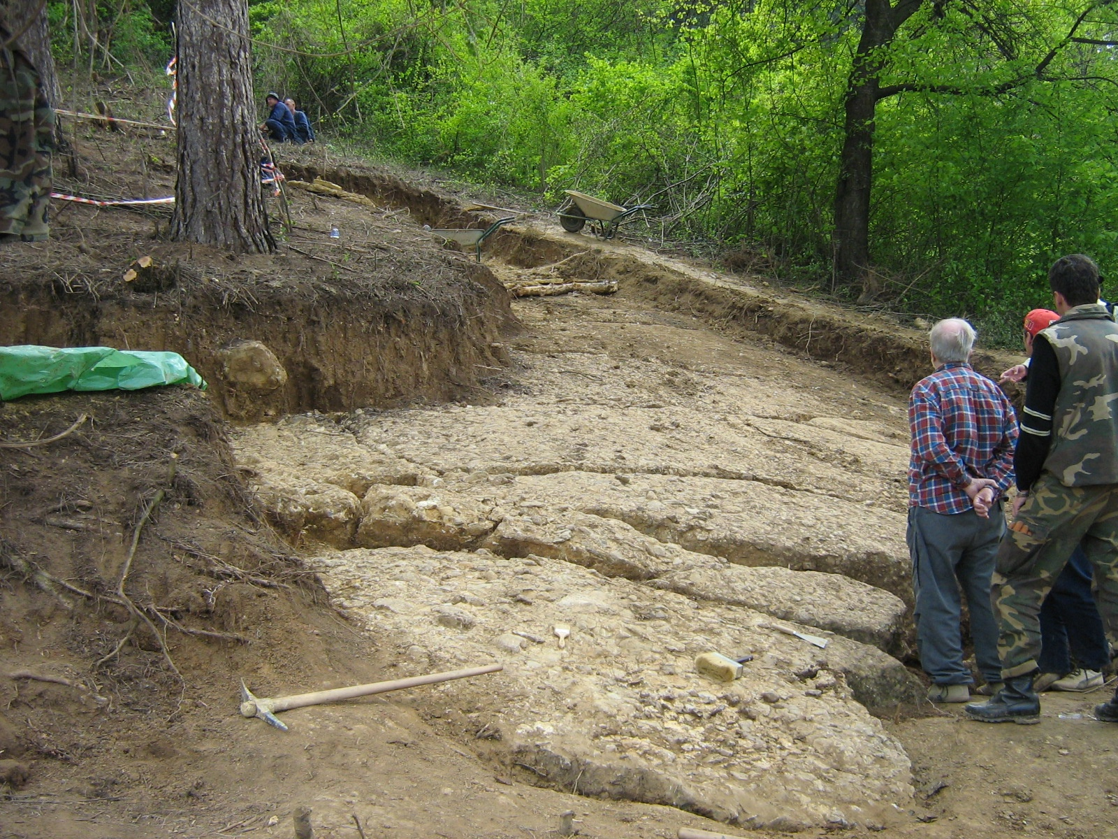 Excavations in sondage bunars around Visocica, alleged Bosnian pyramid